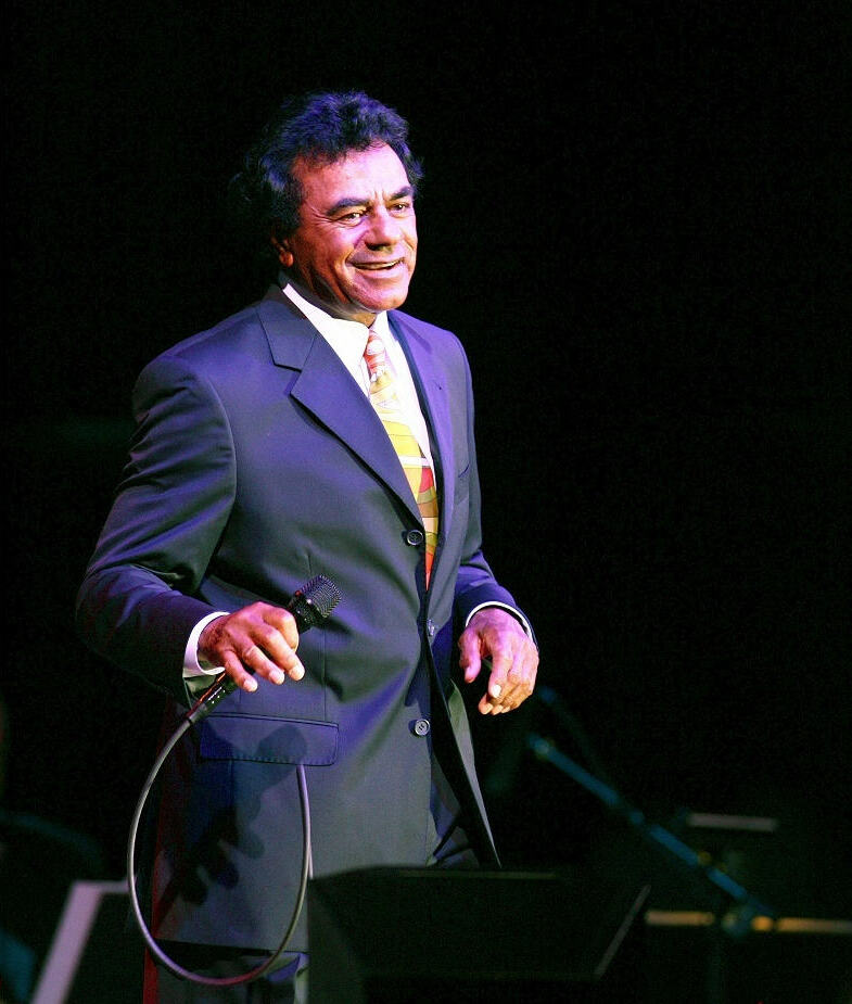 Dwight McCann, Johnny Mathis in concert at the Chumash Casino Resort in Santa Ynez, California, on May 25, 2006. Cropped slightly by Ali'i on 17:18, 14 March 2008 (UTC)